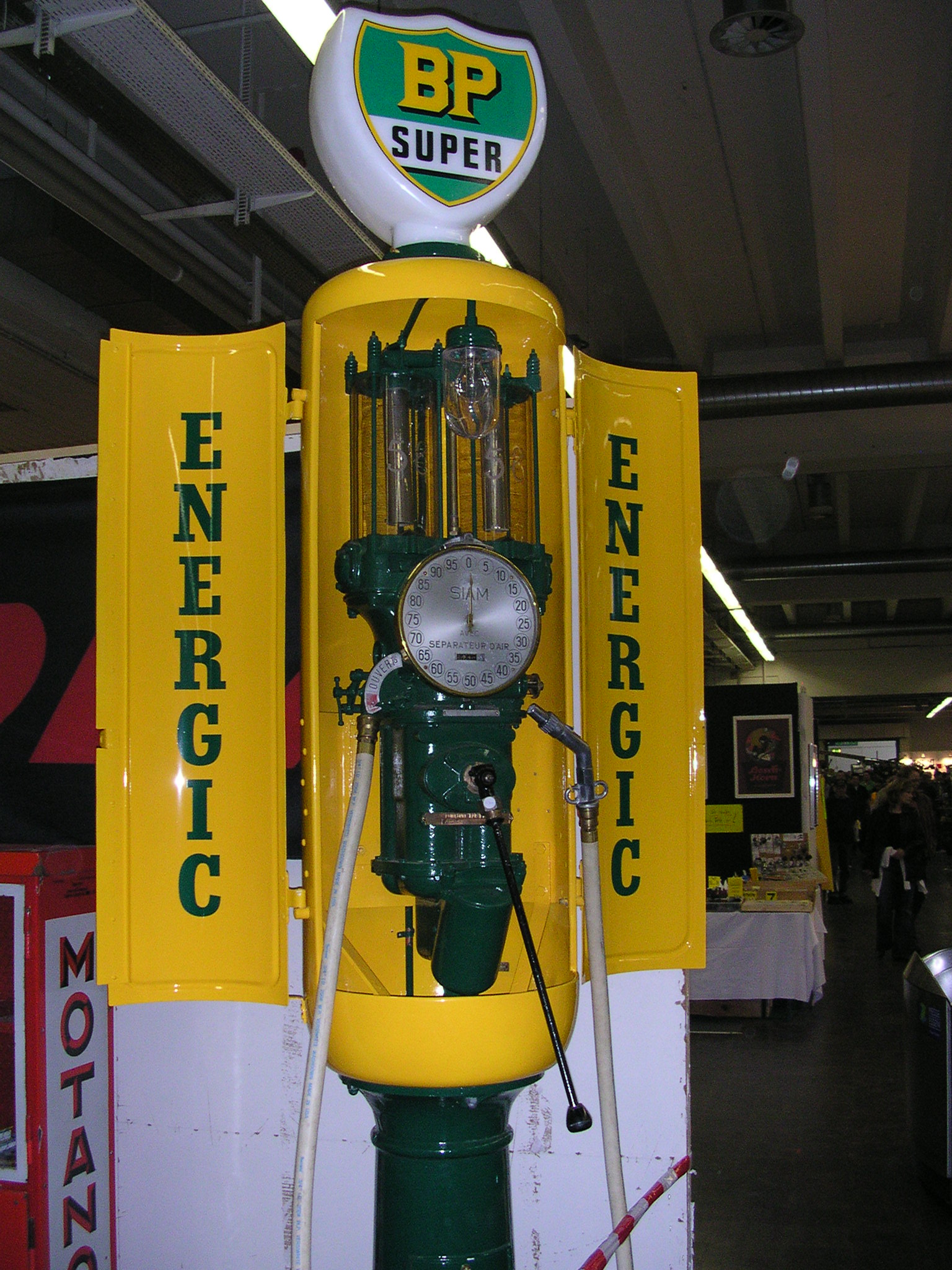 Essen Techno-Classica 2007, petrol pump of „BP“